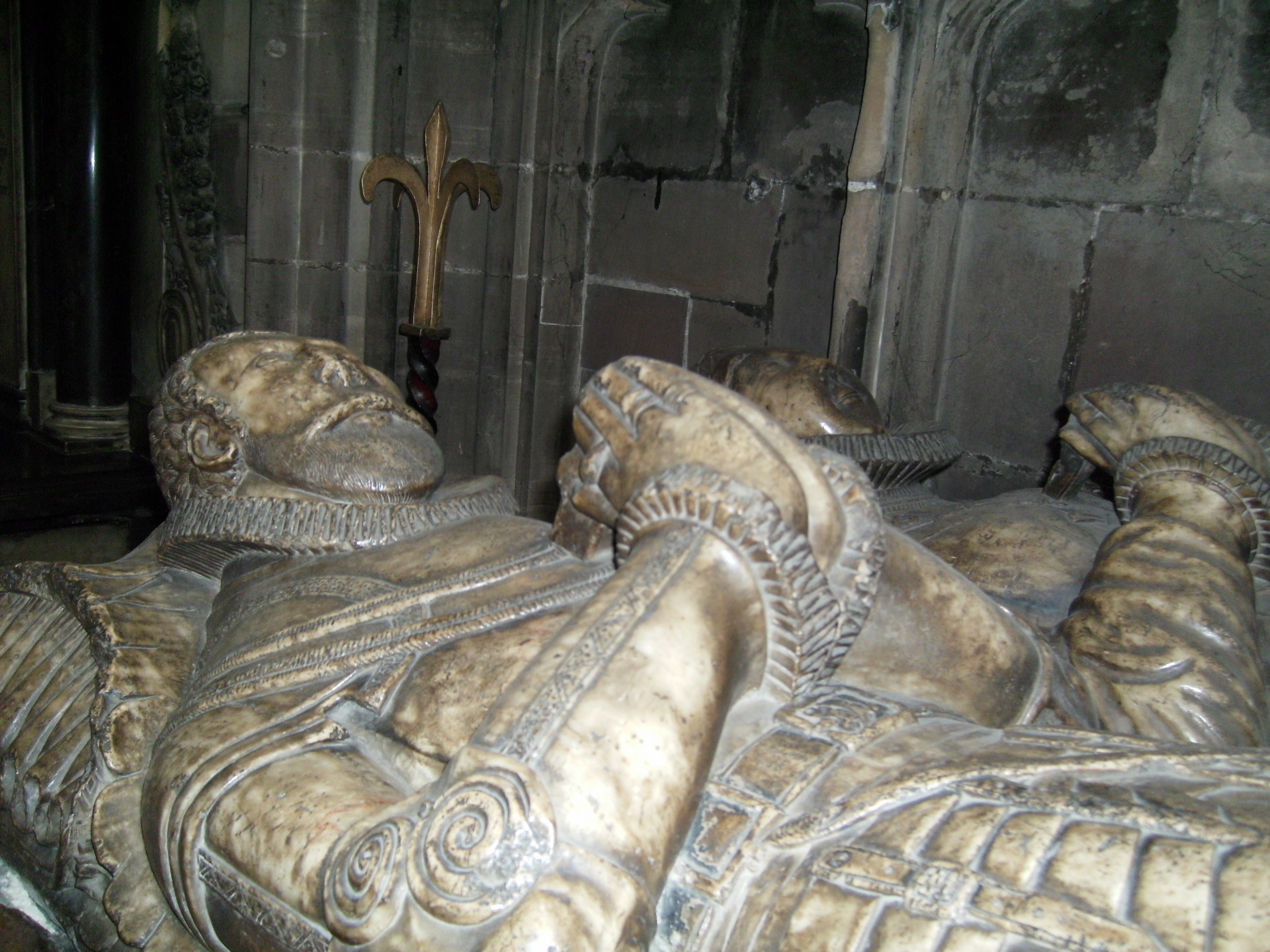 Tomb of Thomas and Katherine Lane of Bentley, c. 1585, attributed to Robert Royley of Burton on Trent. St. Peter's Collegiate church, Wolverhampton, West Midlands, England. Parish of Central Wolverhampton WV1 1TS.